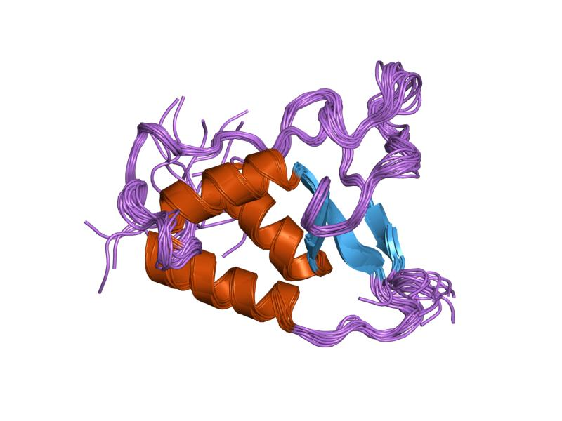 Cartoon representation of the molecular structure of protein registered with 1w6v code.